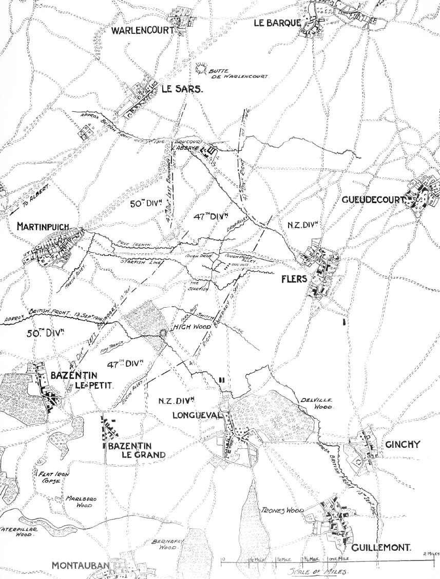 Diagram showing the 47th Division attack on Eaucourt l'Abbaye, Somme October, 1916